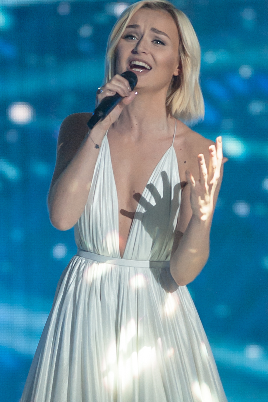 Eurovision Song Contest Vienna 2015: Polina Gagarina